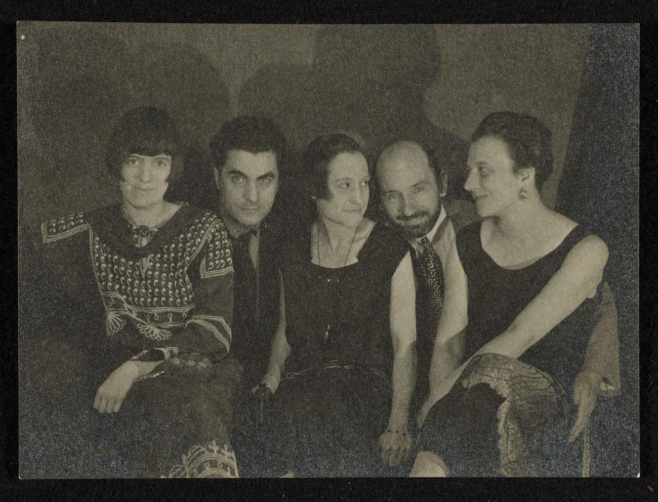 Artists and writers around the New York Dada scene.